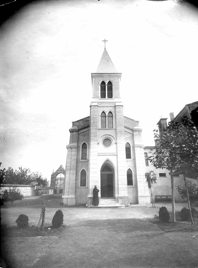 Notre Dame de Lourdes, Georgian Catholic Church in Constantinople. Date 1898, probably photo taken during the restoration, because the building was erected in 1861.